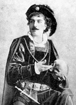 Petros Admian, in 1870s.